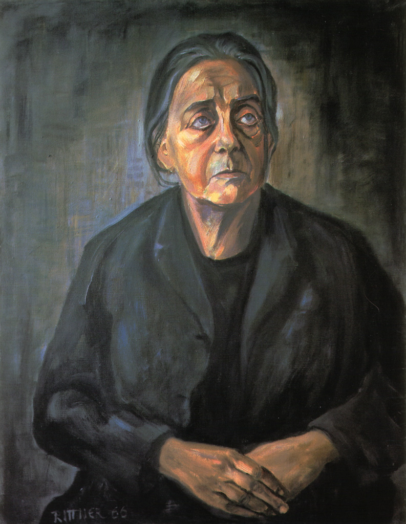 Therese Giehse, portraying the main character of "Mother Courage" in Bertolt Brecht’s play "Mother Courage and Her Children"